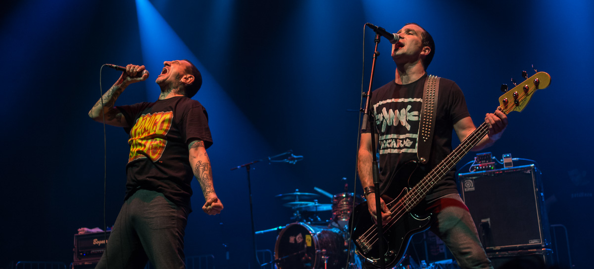 Los Gatillazo en Zaragoza el 20 de mayo de 2016 en el Teatro de las Esquinas .es/2016/05/gatillazo-teatro-de-las-esqu...